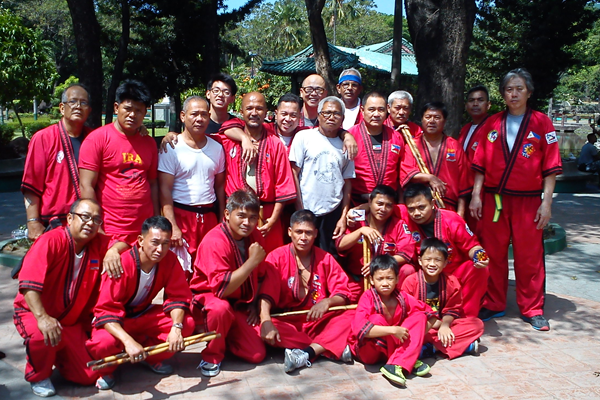 Modern Arnis group at Luneta with Grandmaster Rodel Dagooc (white shirt with glasses in the middle)